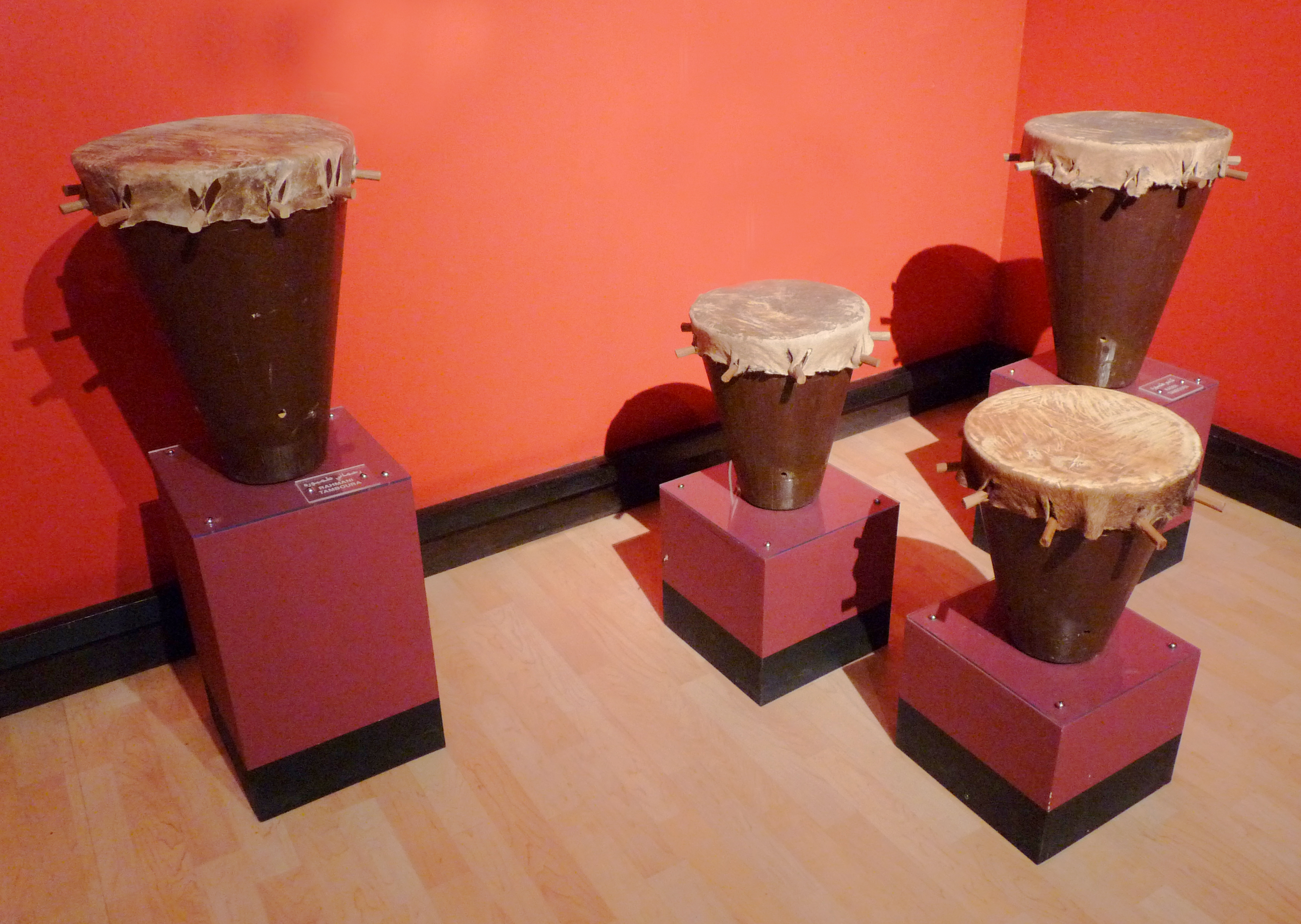 Bait Al Baranda Museum in Muscat (Oman). Drums